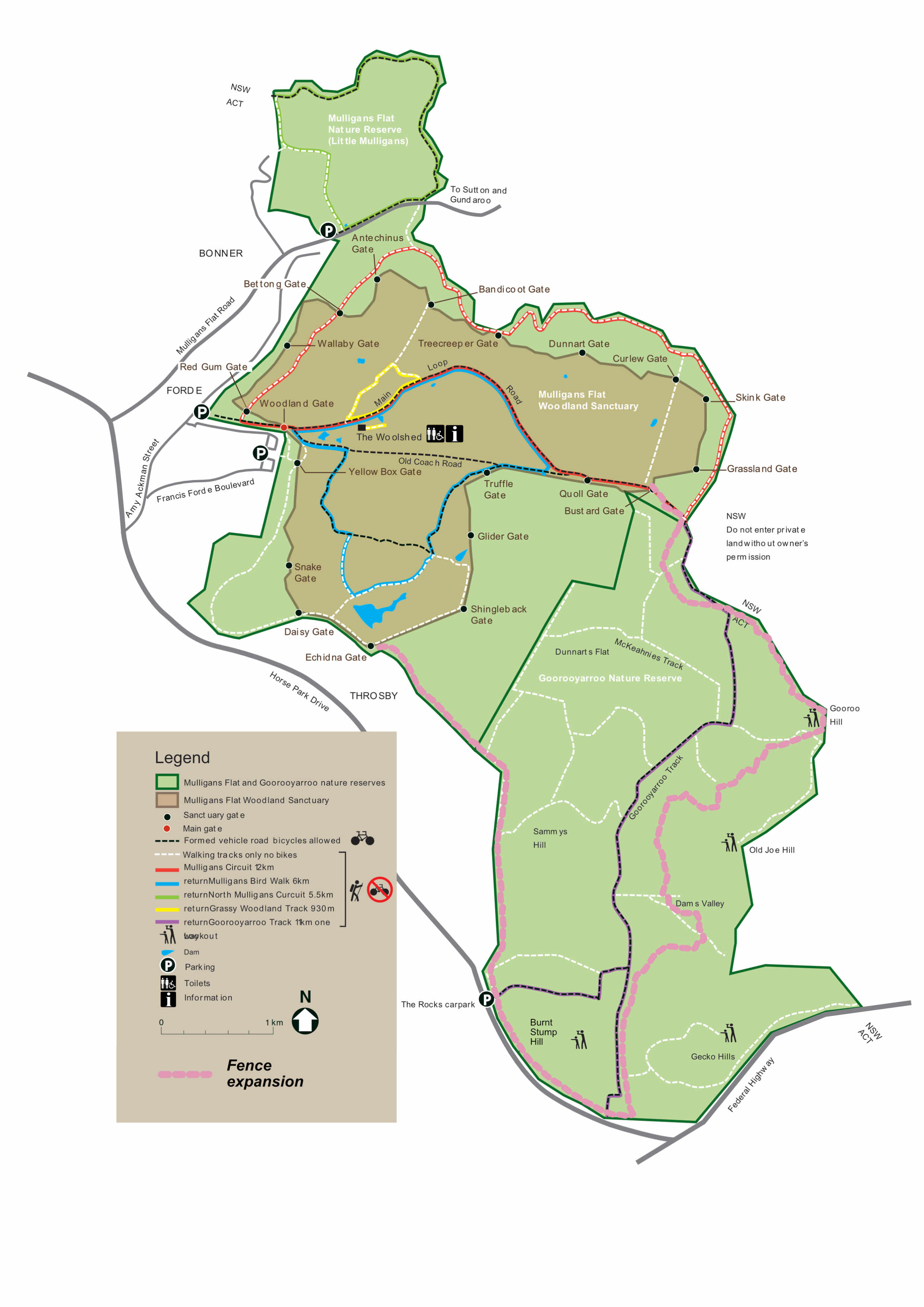 This map is freely available from the Woodlands and Wetlands Trust which manages both Mulligans Flat Nature Reserve and Jerrabomberra Wetlands. Mulligans Flat and Goorooyarroo are conjoined nature reserves share a predator exclusion fence which was expanded in 2018.